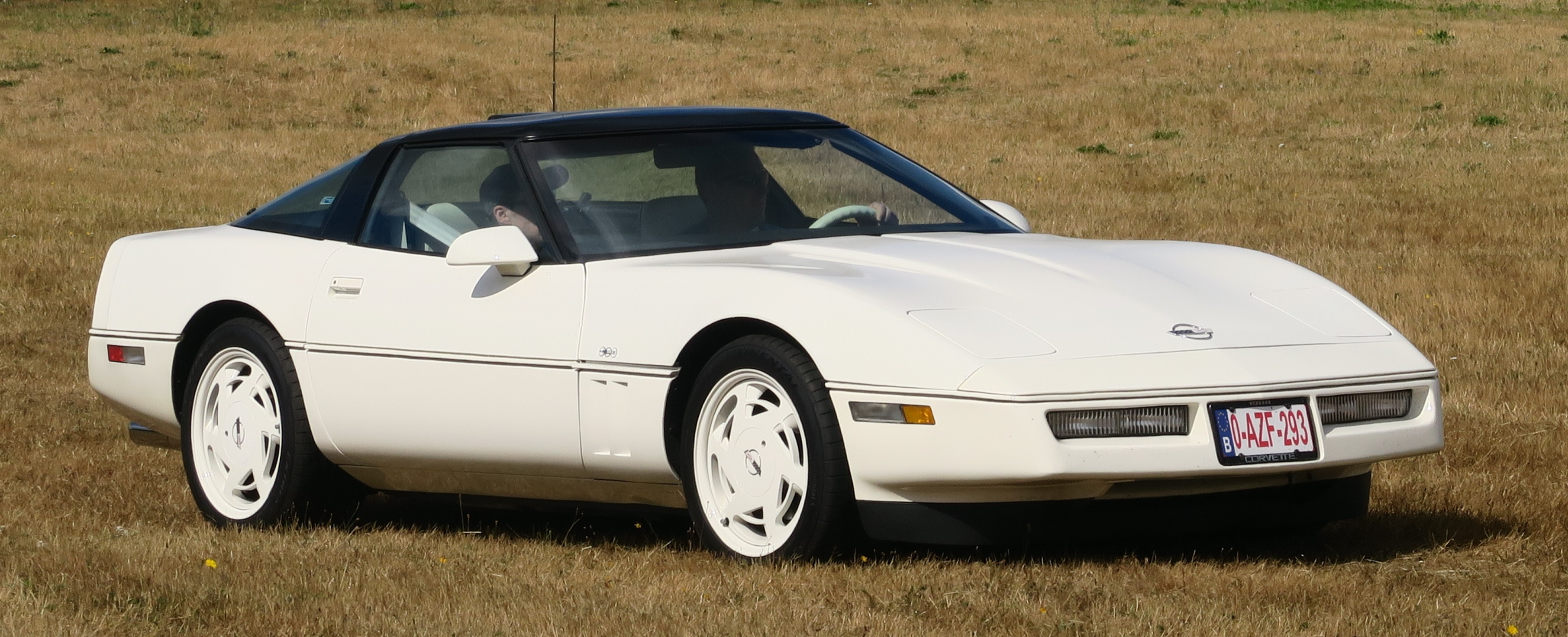 Chevrolet Corvette arriving Schaffen-Diest 2018